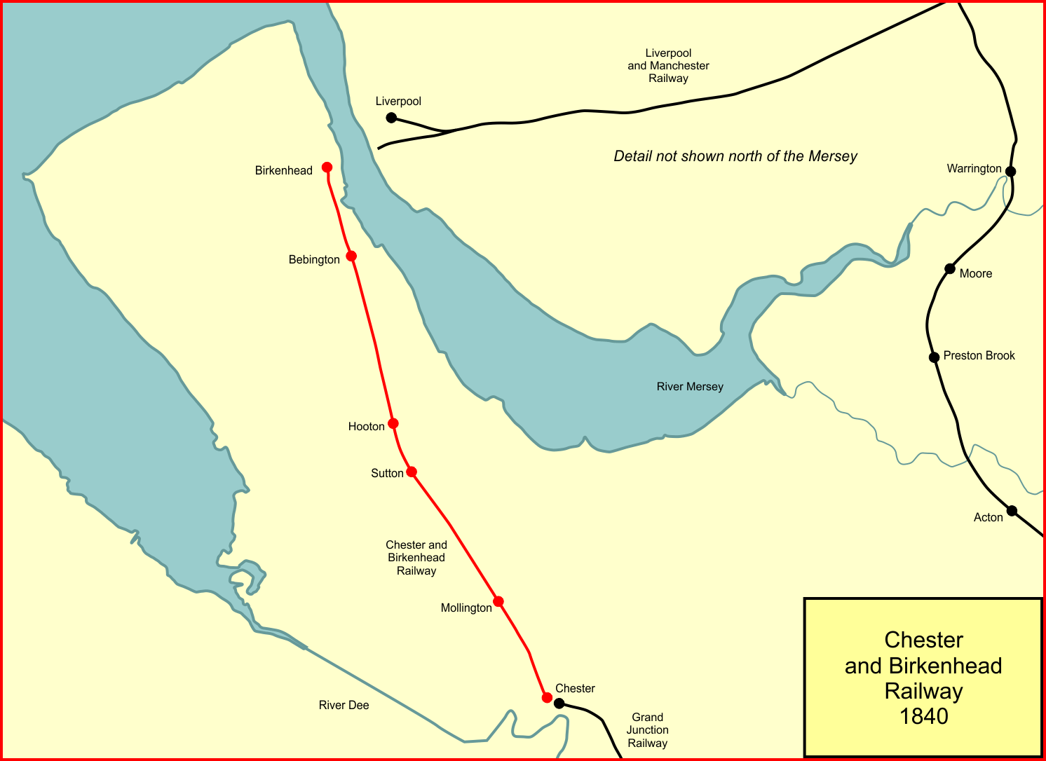 System map of the Chester and Birkenhead Railway, England, in 1840